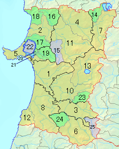 Municipalities of Akita prefecture after 2006